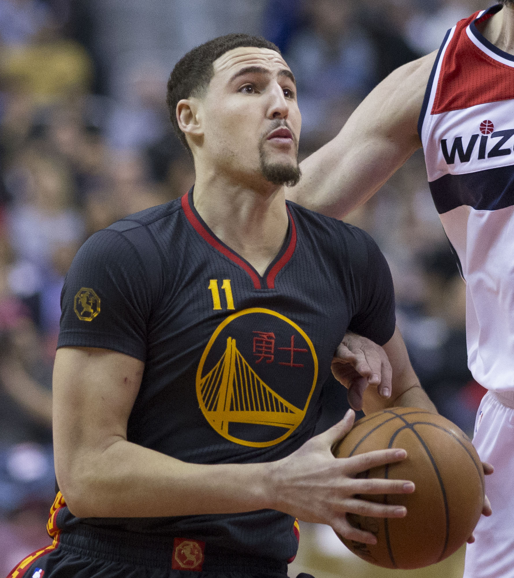 Klay Thompson of Golden State Warriors at Washington Wizards